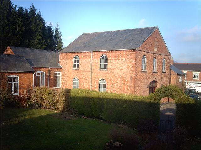 Bulkington Congregational Church Bulkington Congregational Church built 1811, restored 1883. Viewed from the manse.